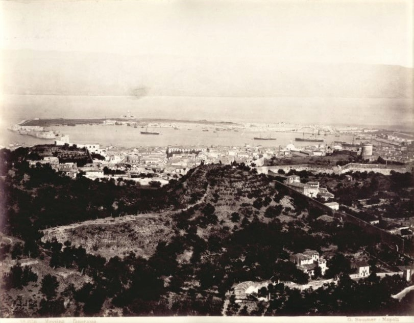 Giorgio Sommer (1834-1914), "Messina - Panorama". Catalogue # 1350. dated: 1882